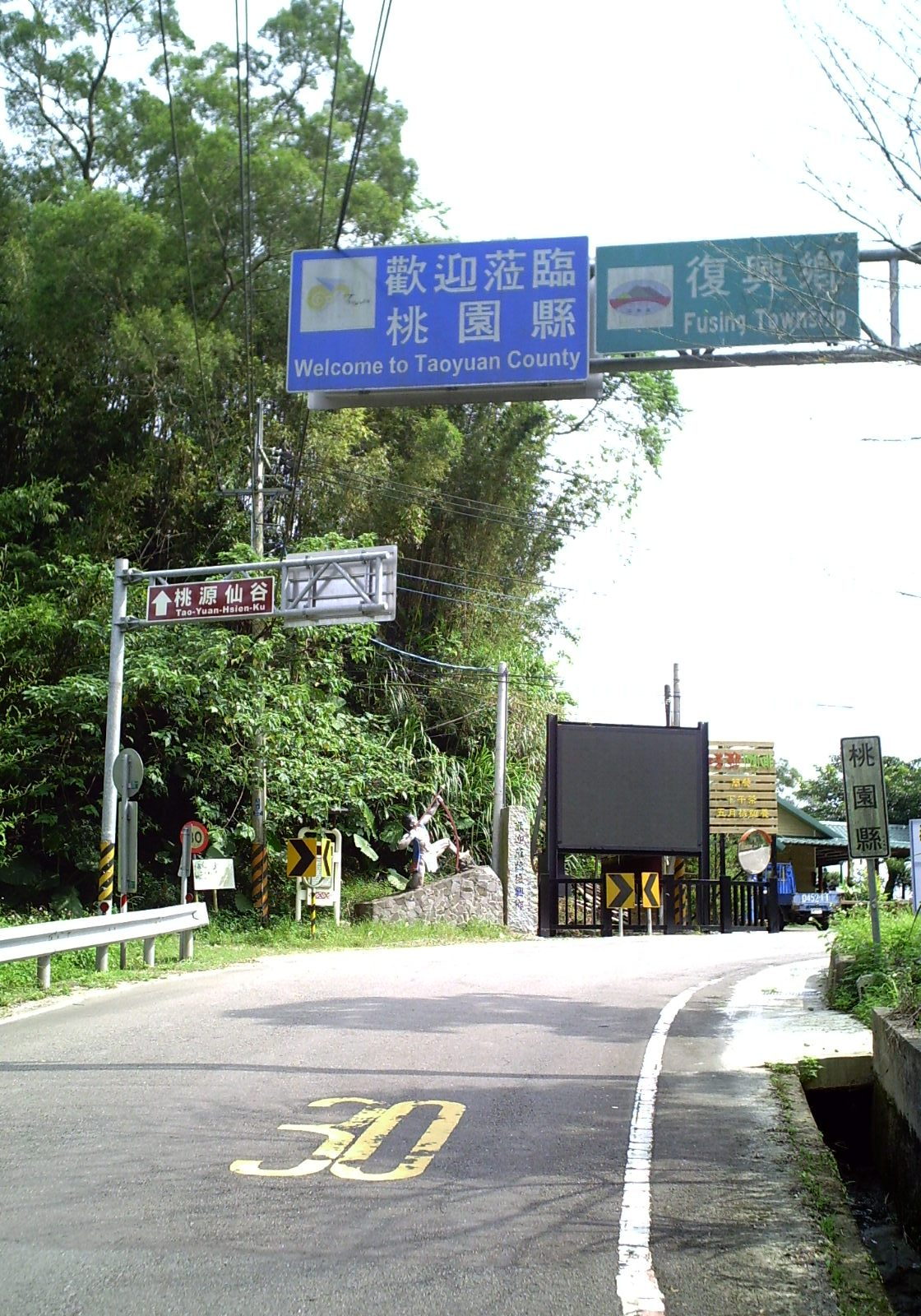 County Highway 118 in the border of Taoyuan City and Hsinchu County, Taiwan